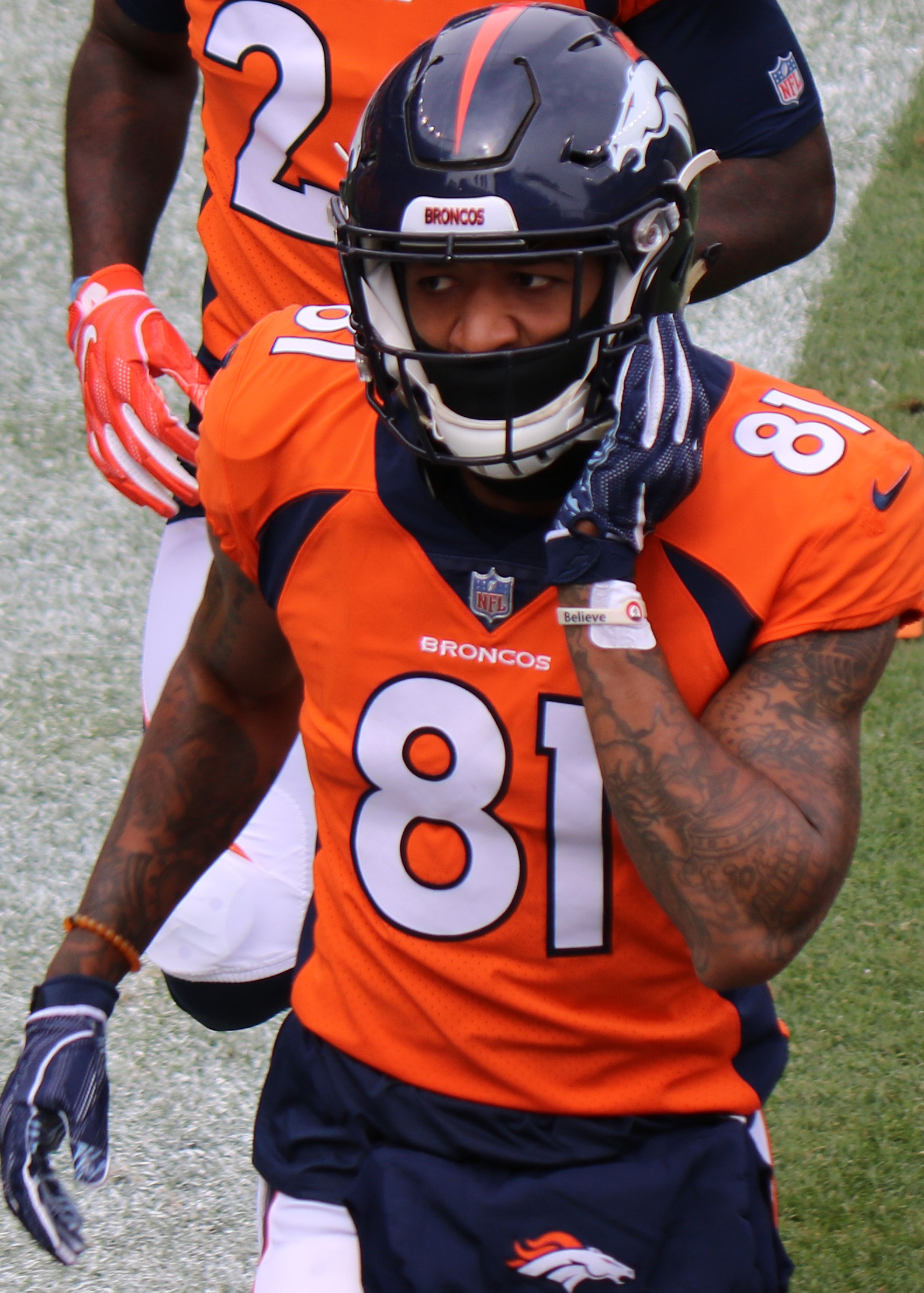 Tim Patrick, a National Football League player.